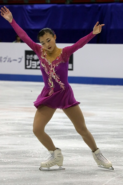 Photos – Junior World Championships 2017 – Ladies